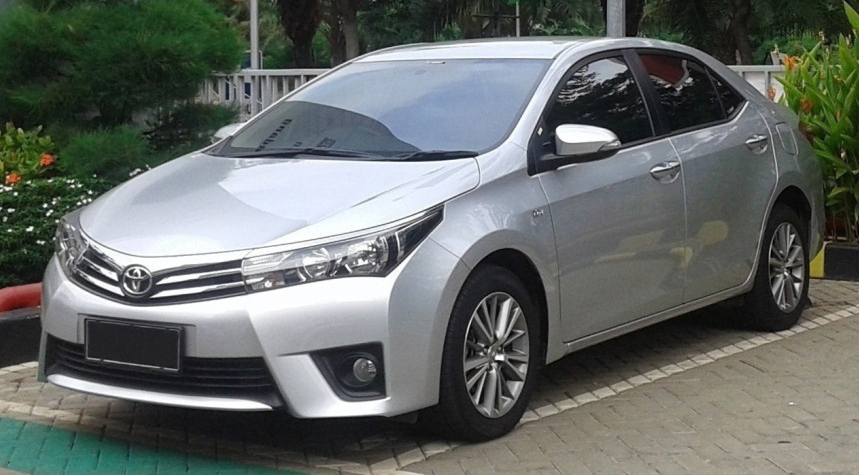 2014 Toyota Corolla Altis 1.8 G (ZRE172), photographed in Tangerang, Indonesia.